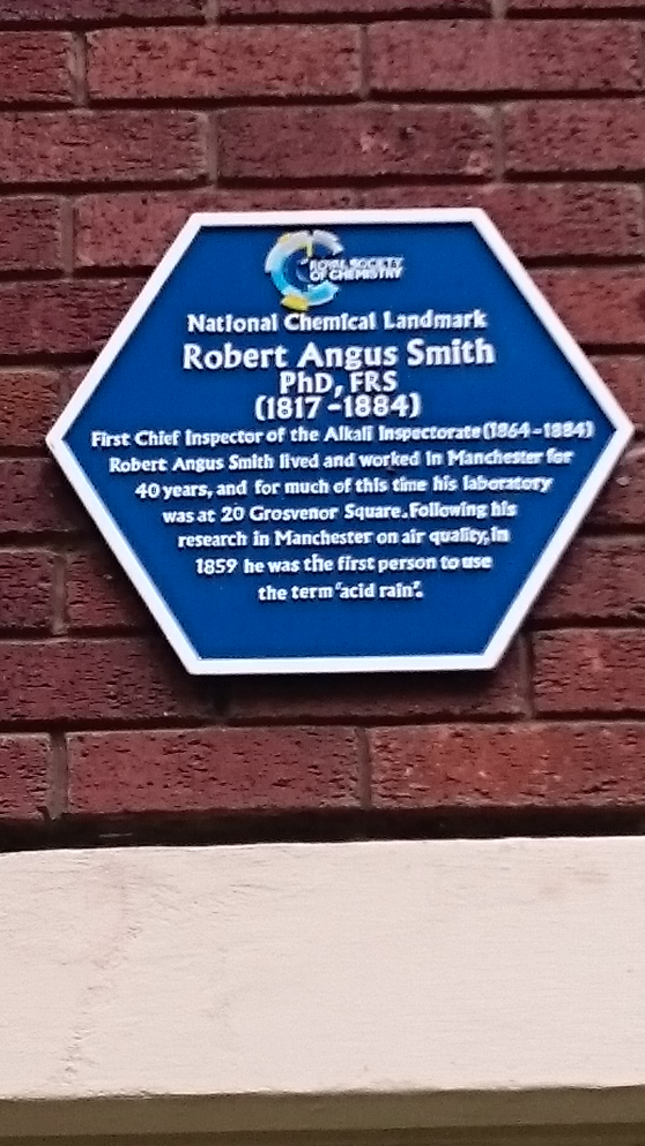 Royal Society of Chemistry landmark at MMU